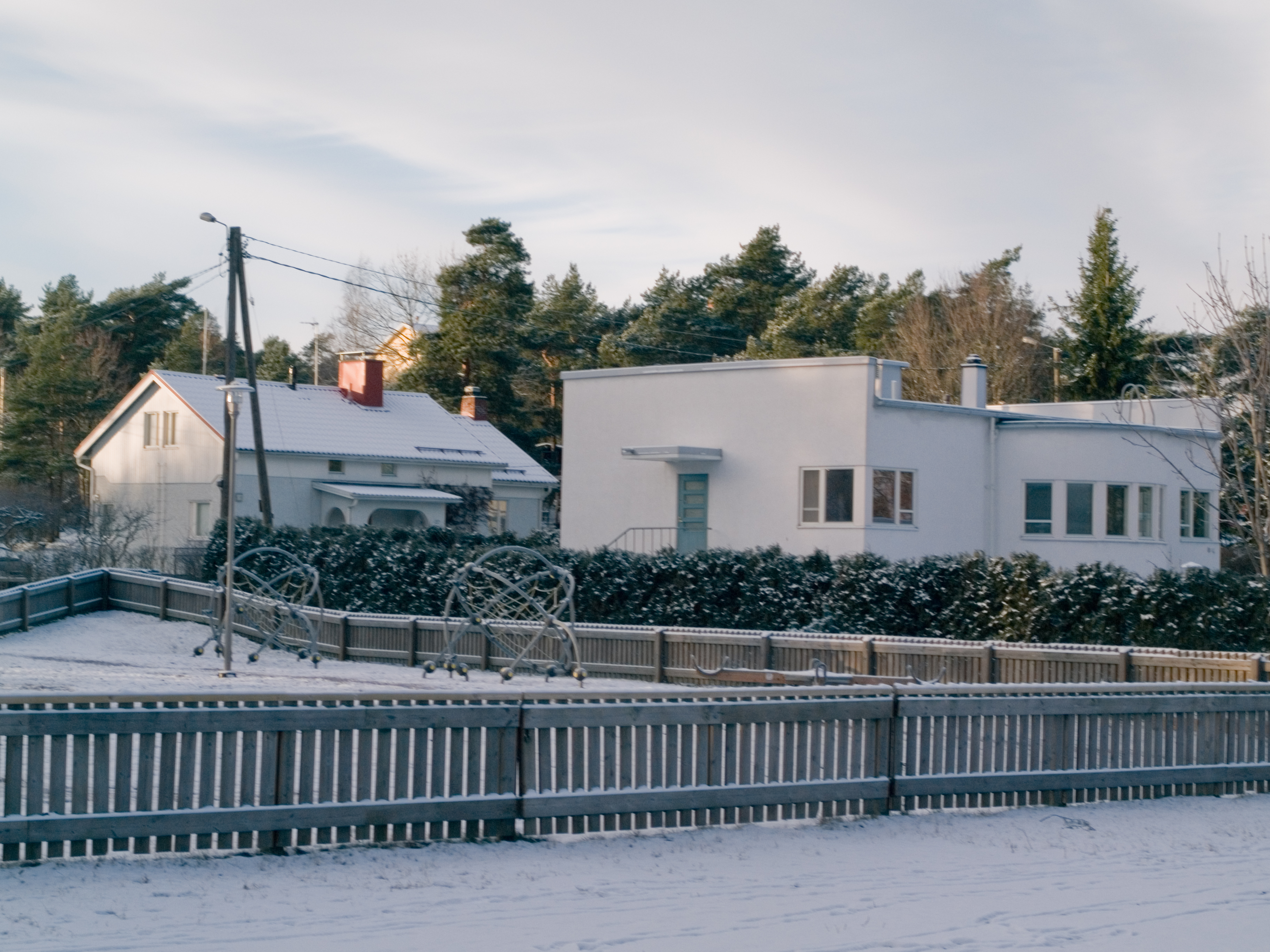 Functionalist flat-roof villa (Lauri Sipilä, 1939) and a more traditional house in the Vasaramäki suburb, Turku, Finland. In the foreground, the Turjanpuisto playground.